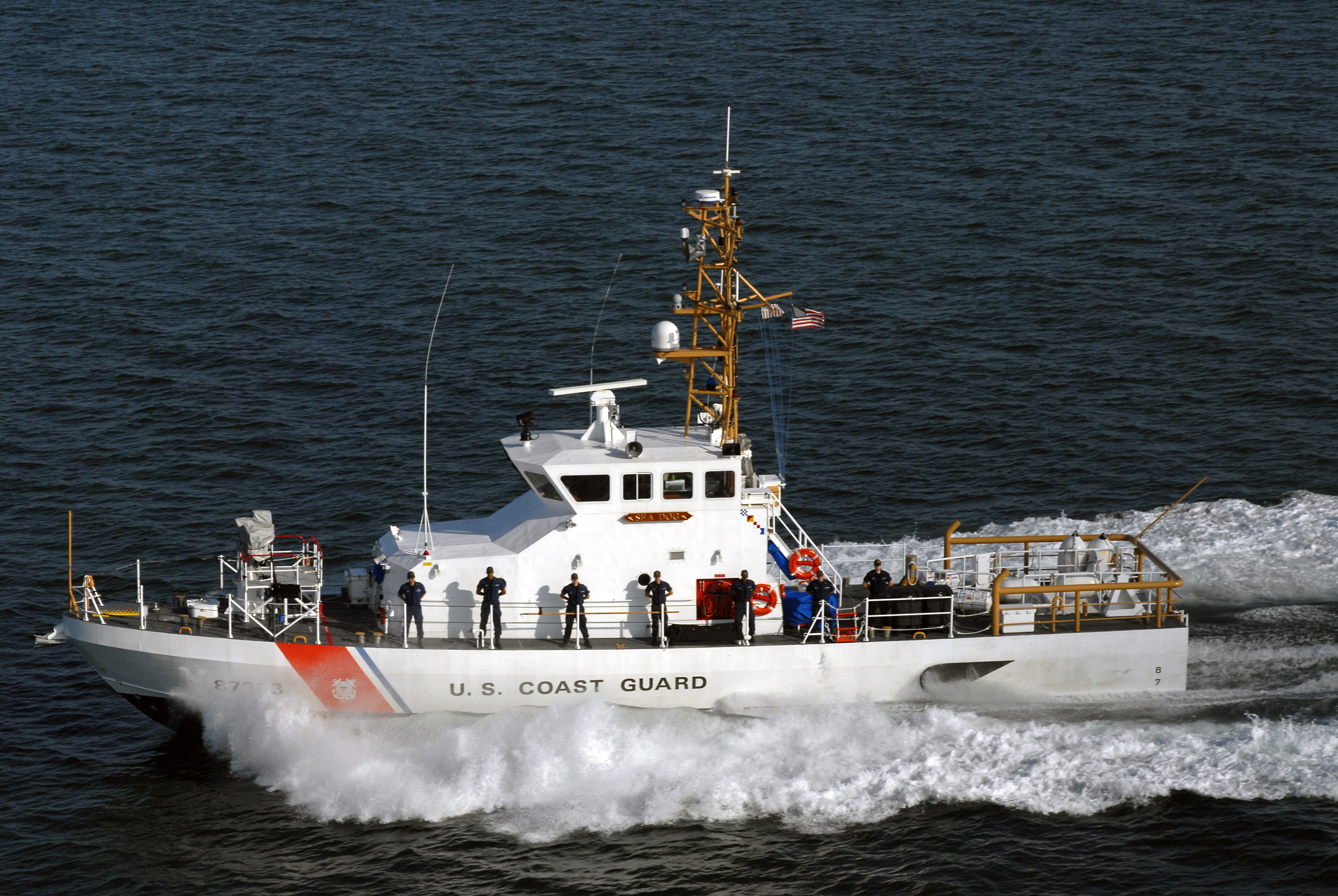 TAMPA, Fla. - Coast Guard Cutter Sea Dog, a newly-designed 87-foot coastal patrol boat, transits Tampa Bay, Fla.,, Wednesday, May 6, 2009, during sea trials. The Sea dog is scheduled to be commissioned July 2, 2009, and is homeported in Kings Bay, Ga. (U.S. Coast Guard photo/PA3 Rob Simpson) VIRIN = 090506-G-#####-121